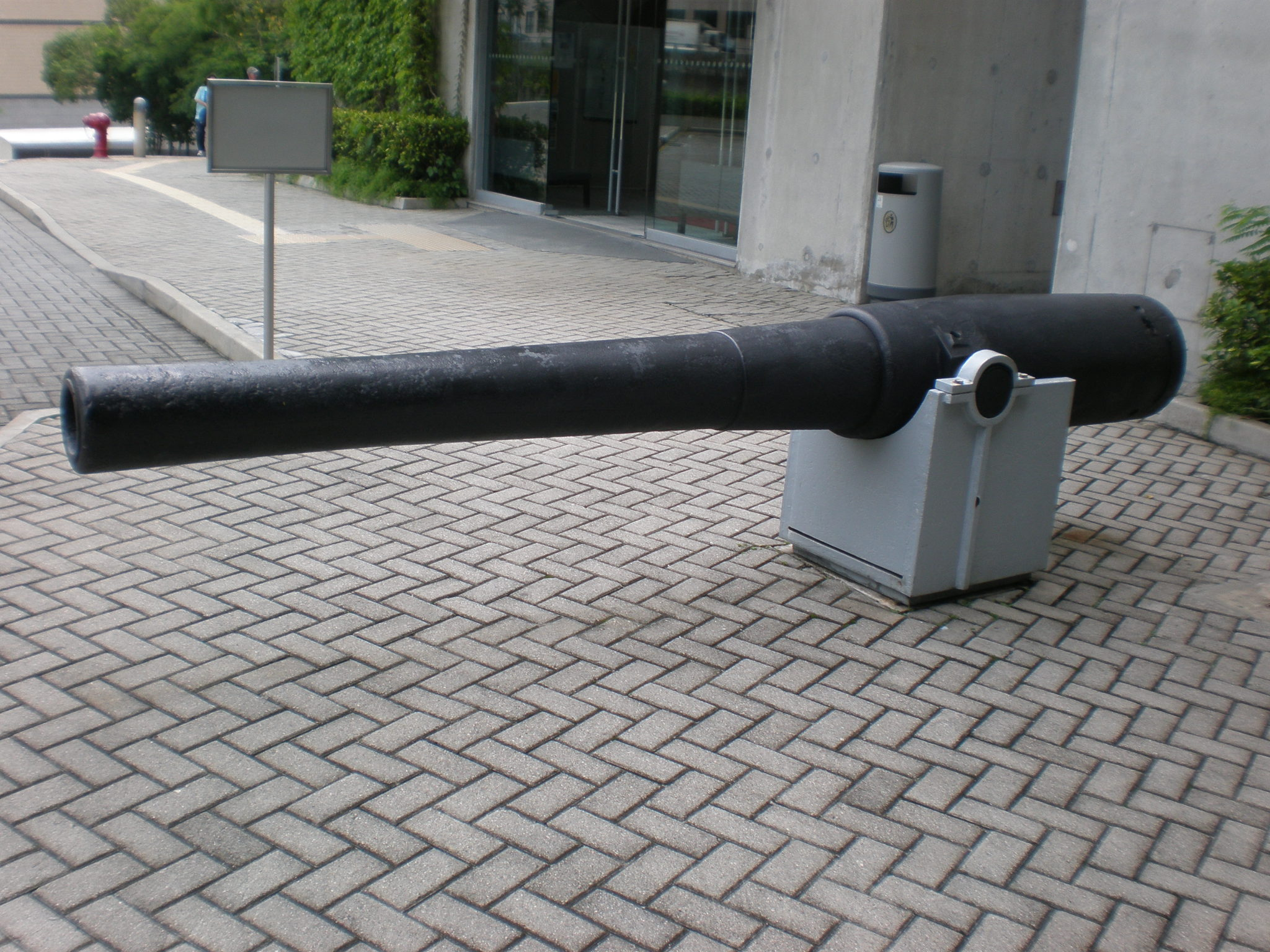 An 1870s 5 inch BL (breech loading) Mark 1 gun at the entrance to the Hong Kong Museum of Coastal Defence on Lei Yue Mun near Shau Kei Wan on Hong Kong Island. A postcard at the museum's gift shop showed that this gun used to be inside the Redoubt.